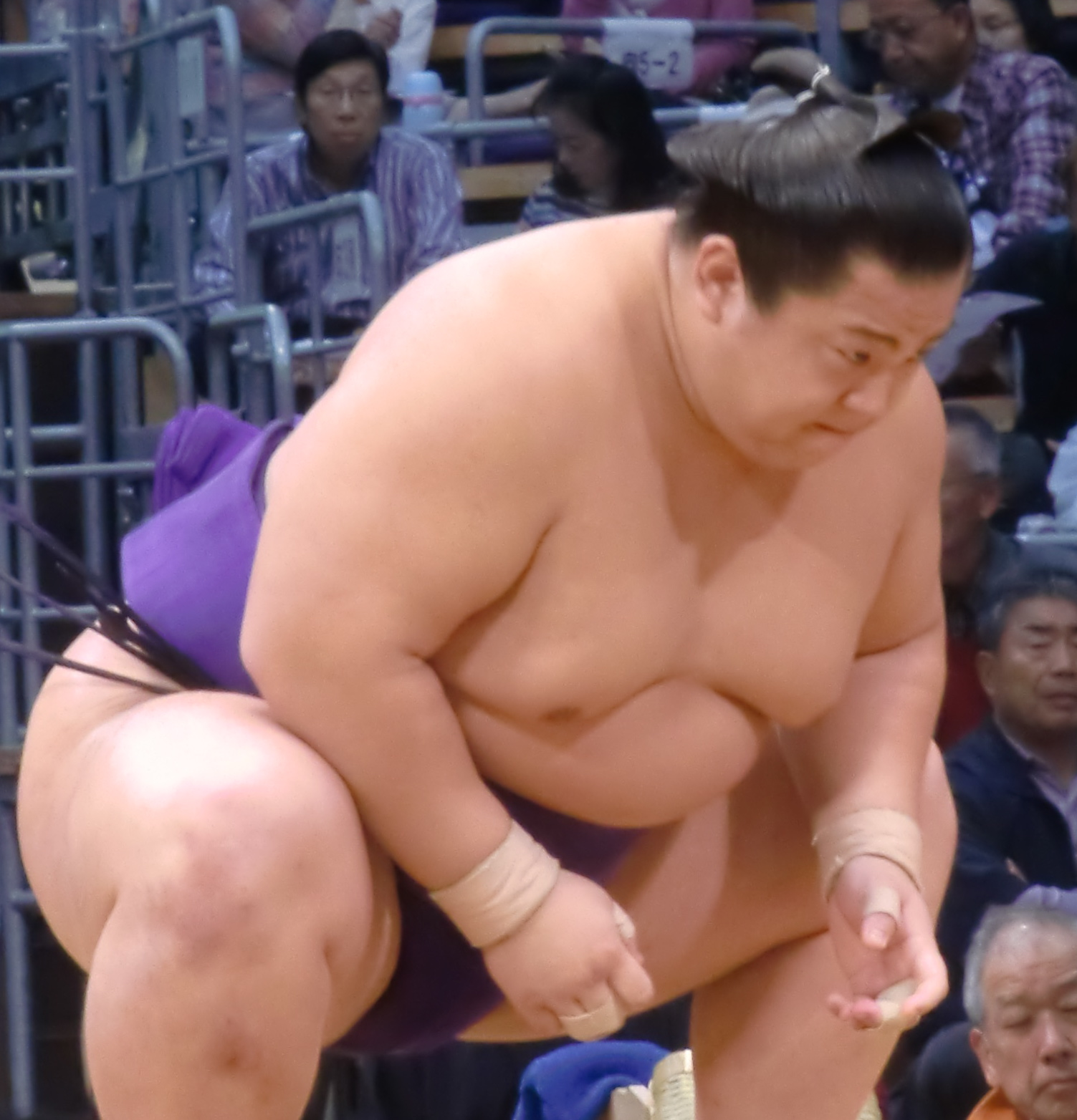 taken at 2011 November tournament